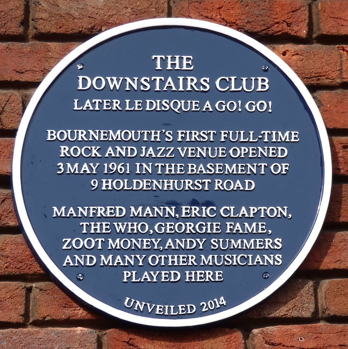 Blue plaque erected 14 September 2014 outside site of Downstairs Club, Bournemouth